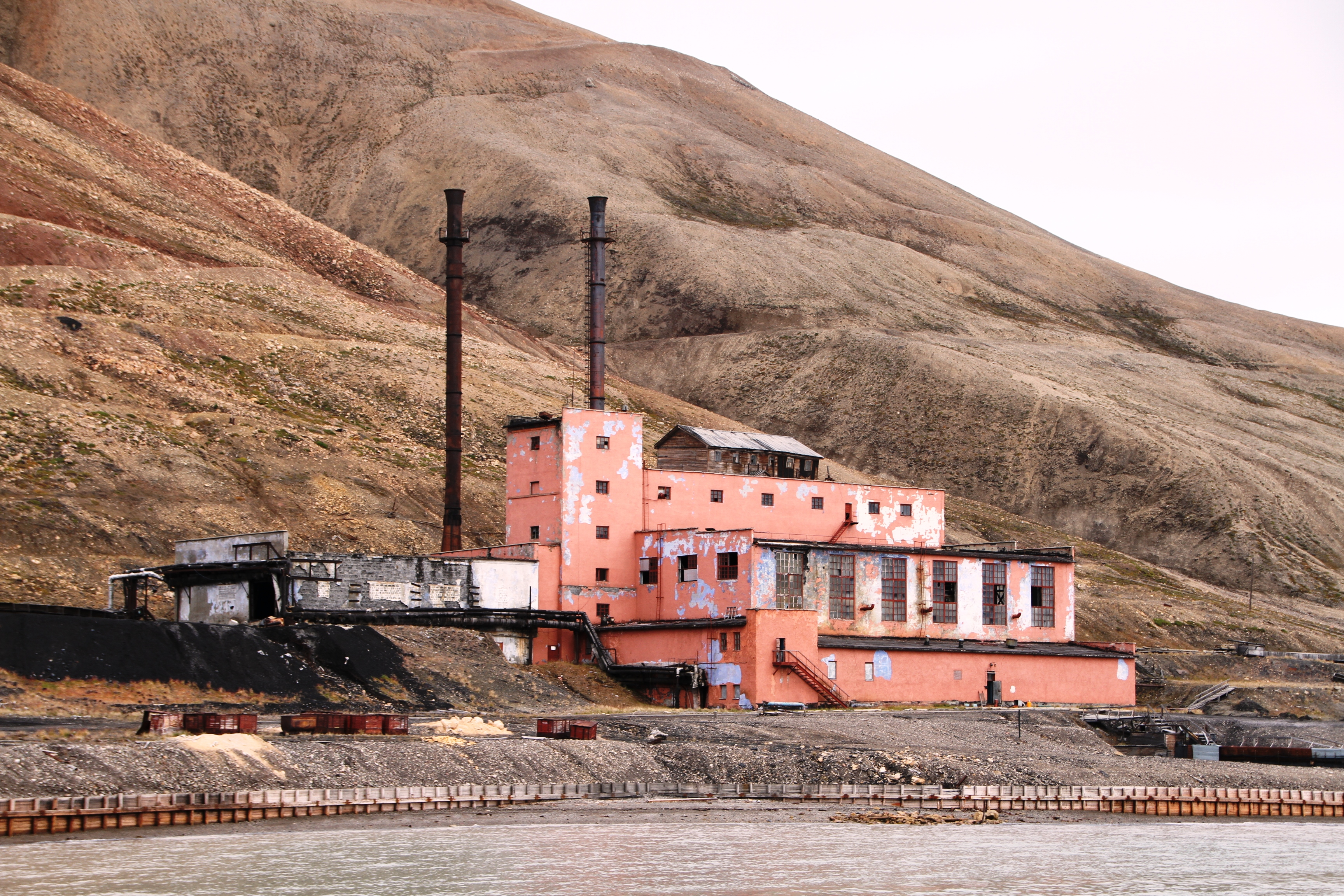 Piramida (Pyramiden), an abandoned Sovjet-style settlement at Spitsbergen, Svalbard (Norway). The place was a coal mining community, abandoned in 1998. This power plant was established by Trust Arktikugol in 1968, and abandoned together with the rest of the community after 30 years of service.